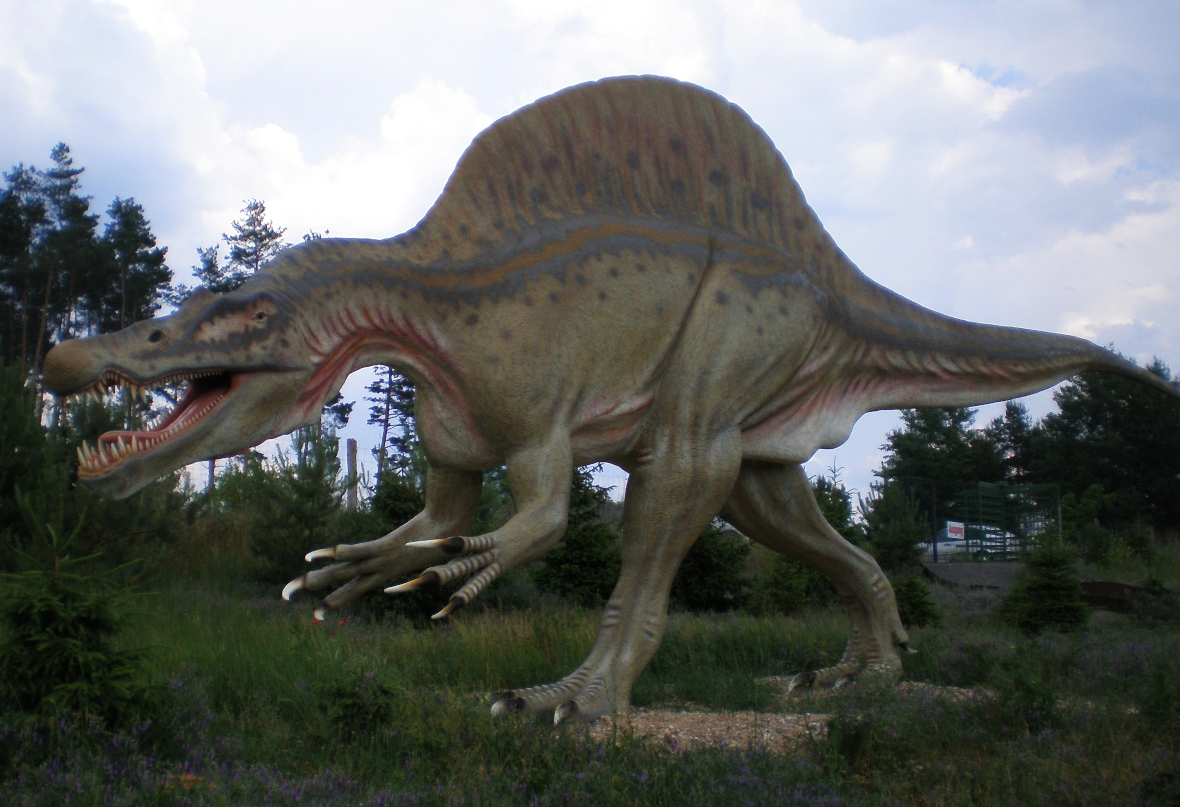 Restoration of a Spinosaurus in Tierpark Germendorf